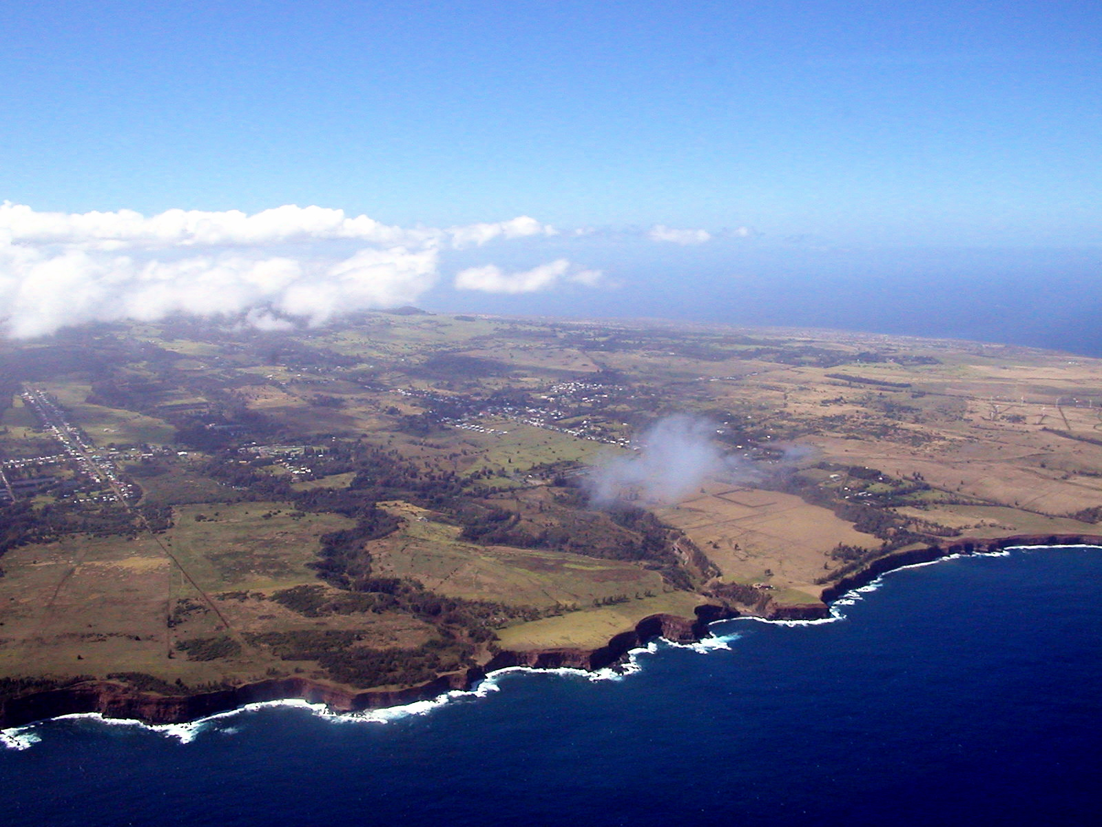 Aerial view of North Kohala. Photo by Kanoa Withington. Feb 16, 2006.